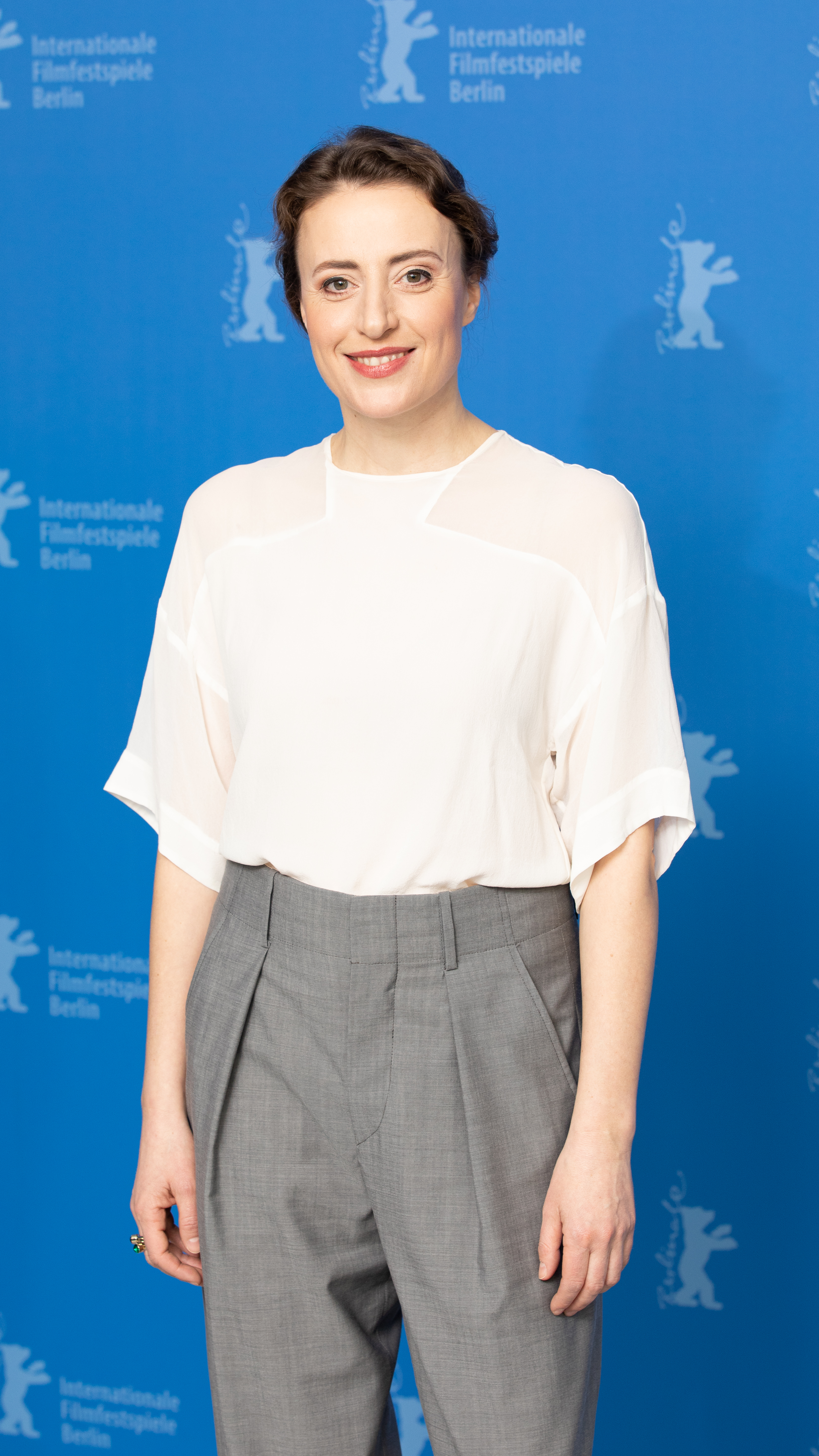 Maren Eggert presenting the Movie "I Was at Home" at the Berlinale 2019